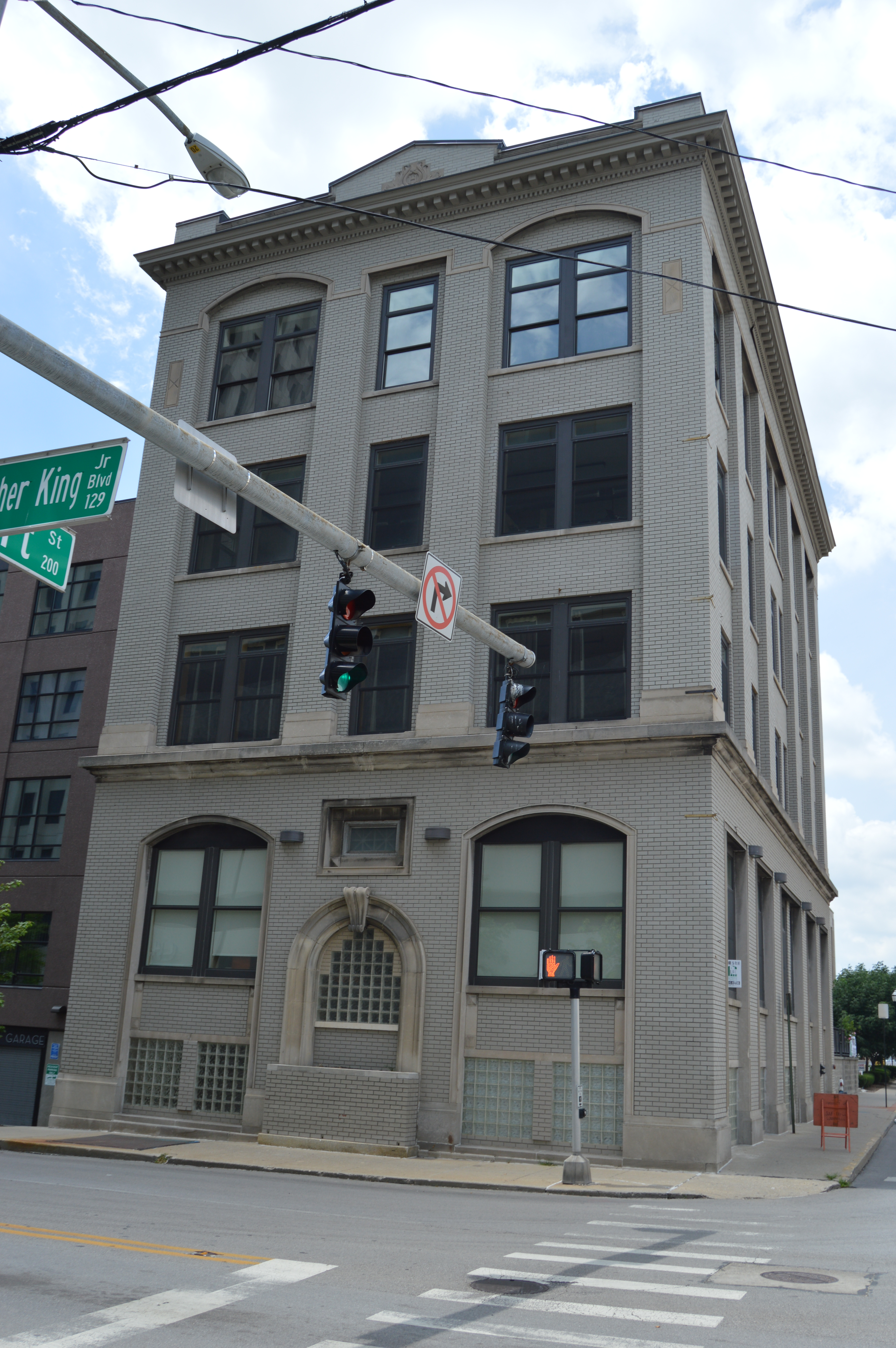 Front and northern side of Lexington Herald Building, a former office for the Lexington Herald-Leader located at 121 N. MLK Boulevard in Lexington, Kentucky, United States. Built in 1917, it is listed on the National Register of Historic Places.